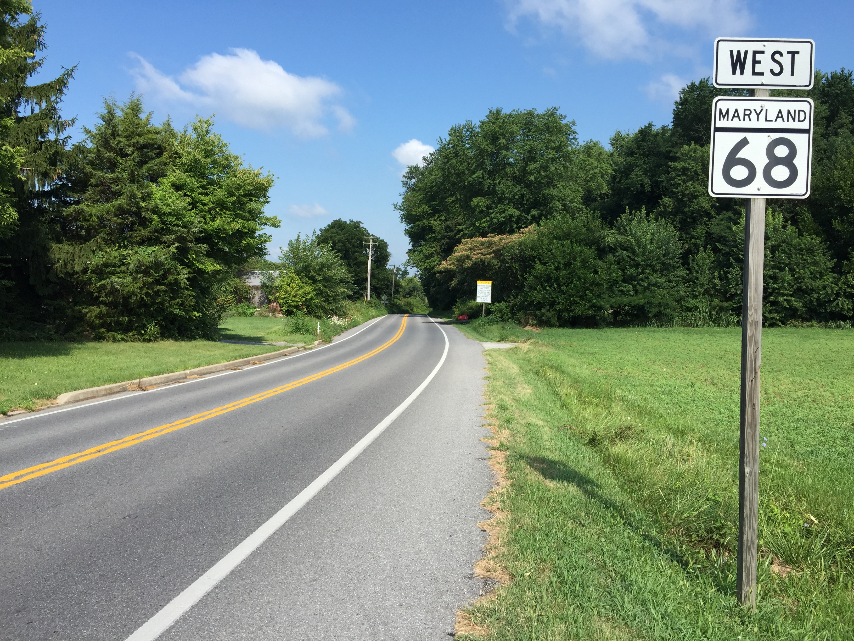 View west along Maryland State Route 68 (Lappans Road) at Mill Point Road in Millpoint, Washington County, Maryland